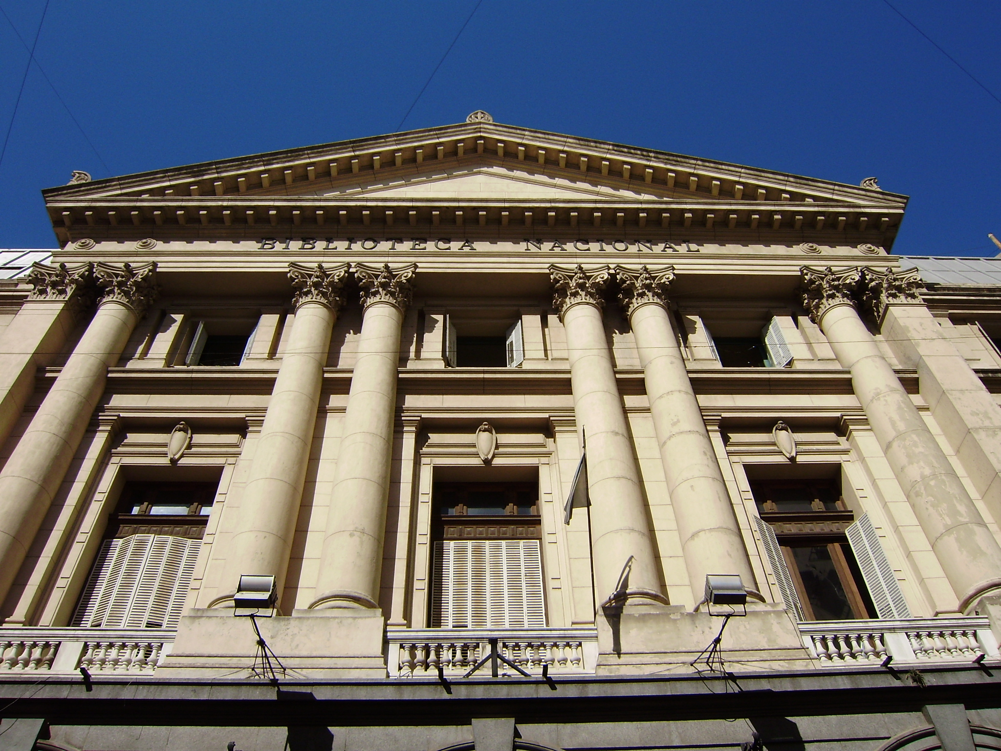 Front of the former Argentinian National Library in Mexico street in Monserrat, Buenos Aires.